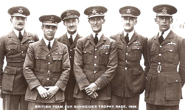 British team, RAF High Speed Flight, for Schneider Trophy race in 1929 left to right: Fg Off HRD Waghorn Fg Off Moon (Engineering Officer) Flt Lt D D'Arcy A Greig Sqn Ldr AH Orlebar (Flight Commander) Flt Lt GH Stainforth Fg Off RLR Atcherley